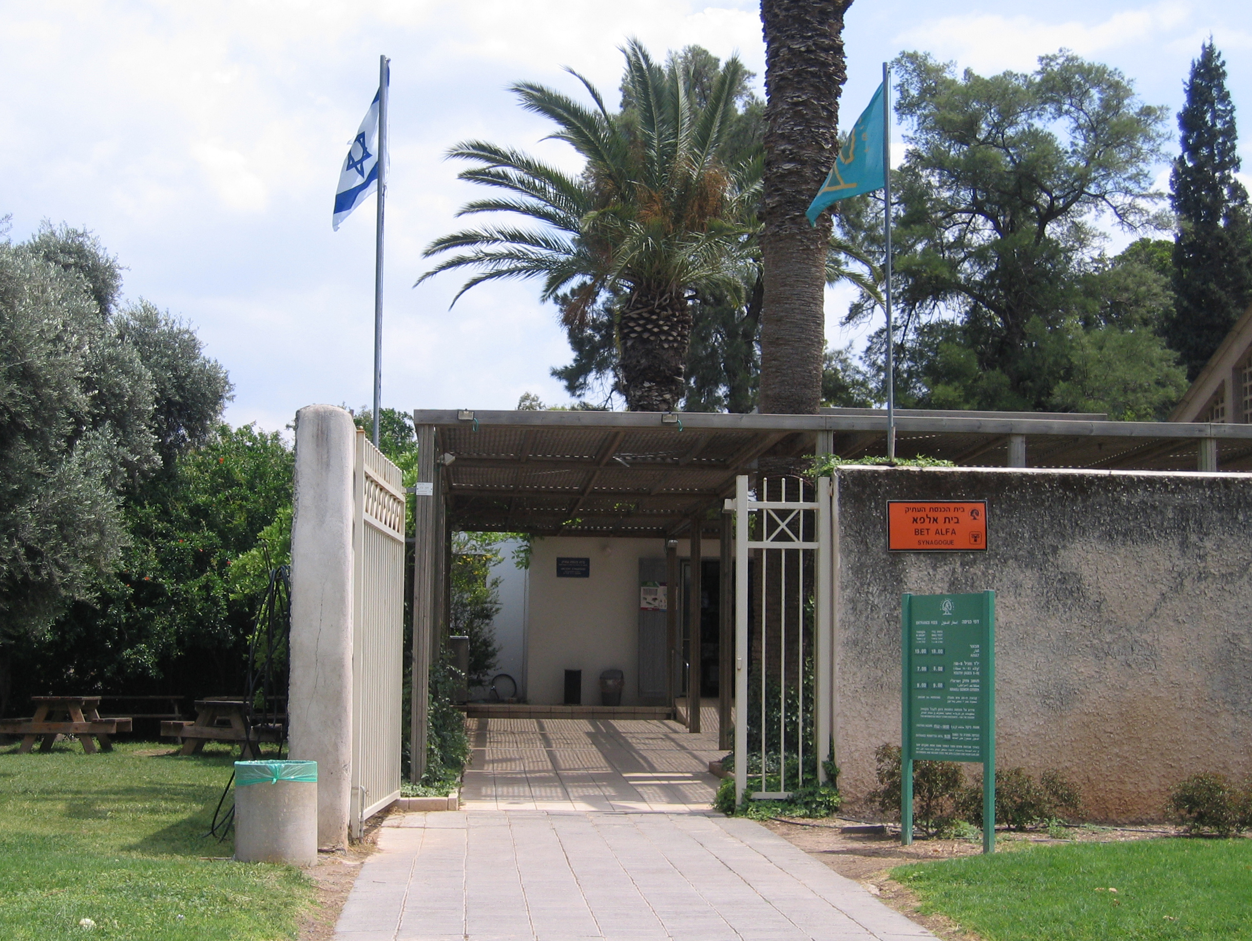 Beth Alpha